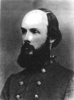 Col. Charles H. Olmstead, who defended Fort Pulaski. Courtesy National Park Service, Miss Florence Olmstead